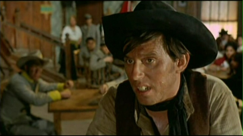 José Terrón as Logan in the Spaghettti western film Lo voglio morto, released in 1968